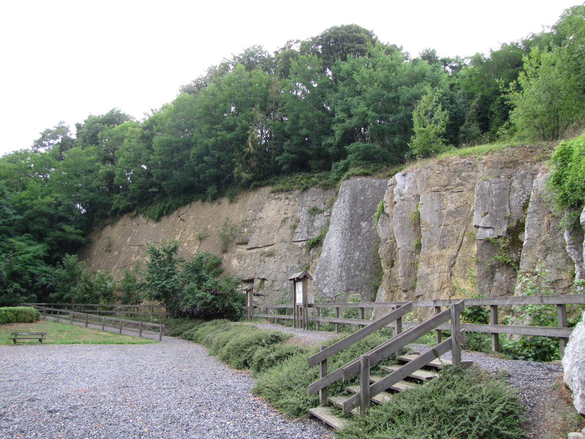 Geological site of Engis, Parc of the Tchafornis, Belgium: oblique rock strata, forming the front of an old quarry for extraction of limestone, are the geological section of a coral reef with Stromatoporoidea dating back over 370 million years.